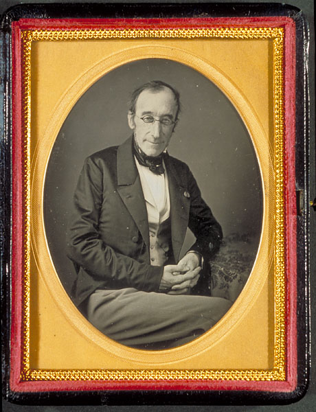 Daguerreotype of French botanist Adrien Henri Laurent de Jussieu, 1851. Image courtesy of the Harvard University Library.